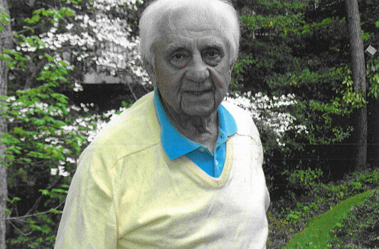 Ted Knap at 94.